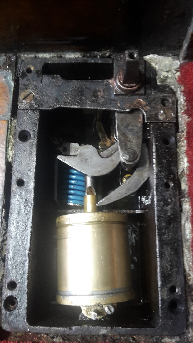 A William Newman handed "Invincible" pneumatic floor spring with the brass decor plate removed, services and repaired by Midlands Floor Springs Limited